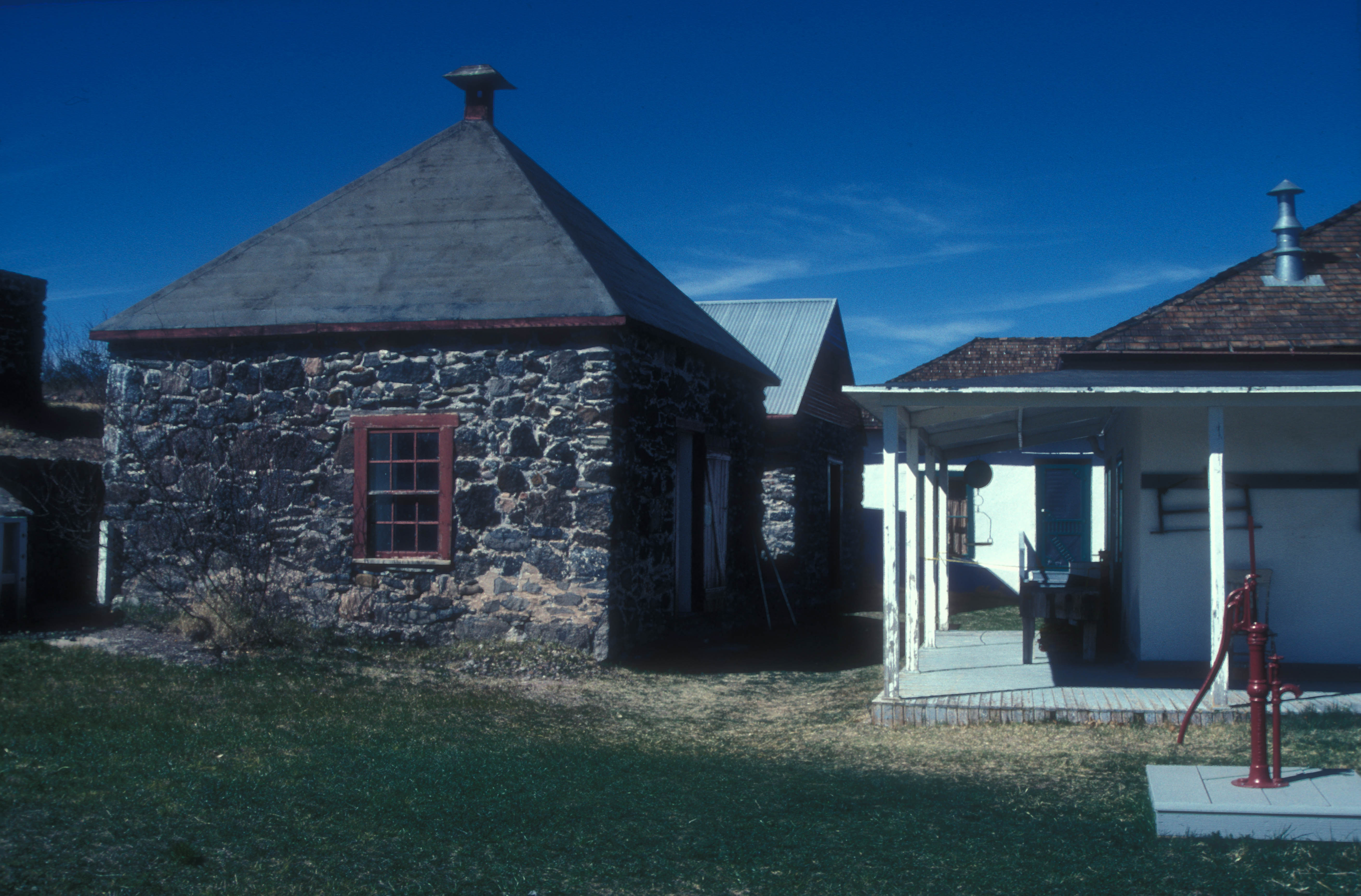 TEXAS JOHN SLAUGHTER'S RANCH CONTAIN THE RANCH HOUSE AND SEVERAL RESTORED OUT BUILDINGS INCLUDING ICE HOUSE, GRANARY, AND A MUSEUM